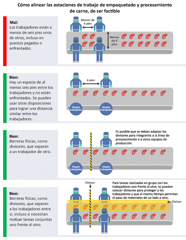 COVID-19 Meat and Poultry Processing Workers and Employers Interim Guidance: Modify the alignment of workstations, including along processing lines, if feasible, so that workers are at least six feet apart in all directions (e.g., side-to-side and when facing one another), when possible. Ideally, modify the alignment of workstations so that workers do not face one another. Consider using markings and signs to remind workers to maintain their location at their station away from each other and practice social distancing on breaks.